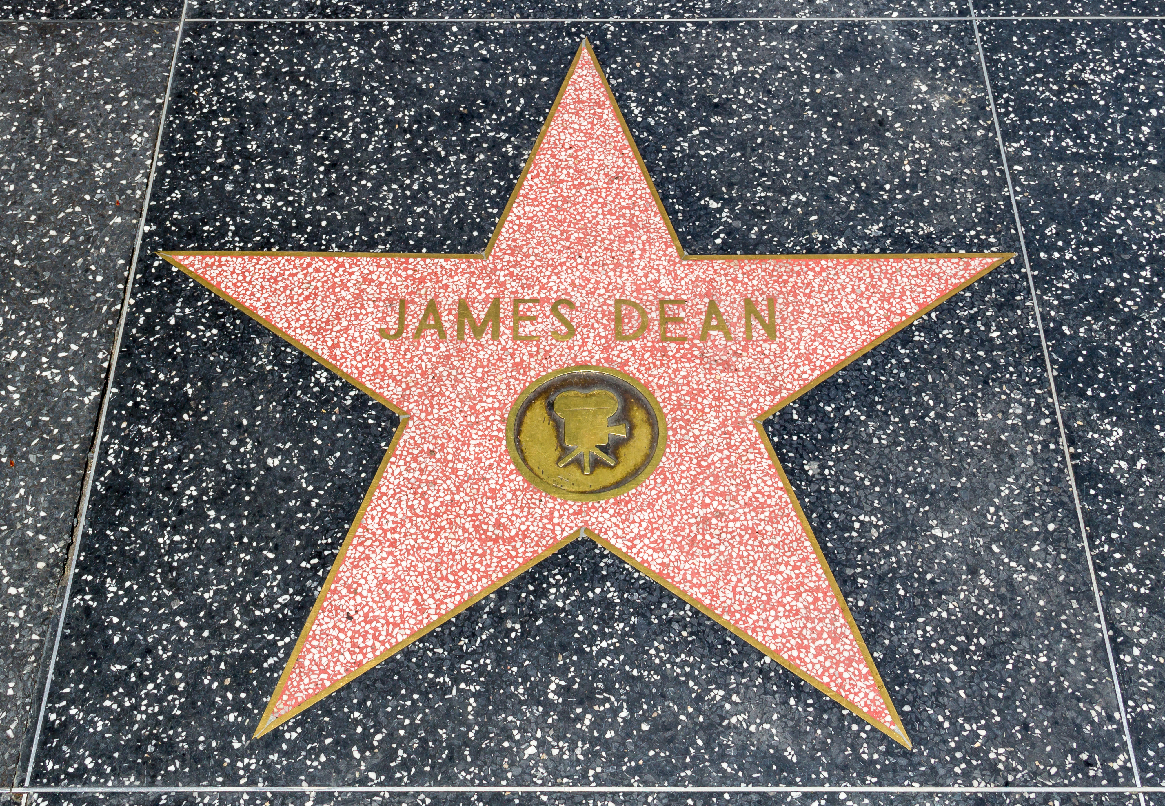 Star “James Dean” at the Hollywood Boulevard in Los Angeles, California, USA